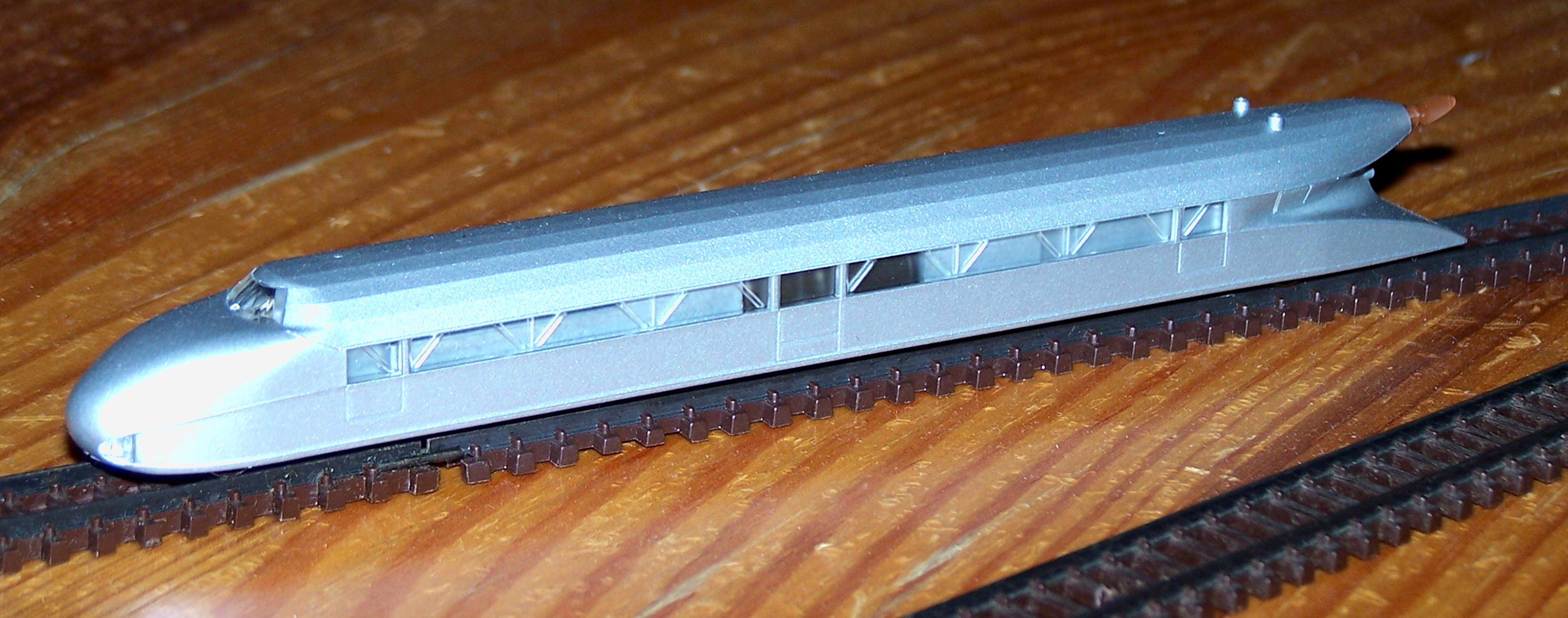 Model of the Schienenzeppelins (Flugbahnwagen of Franz Kruckenberg) in N scale made by Hobbytrain